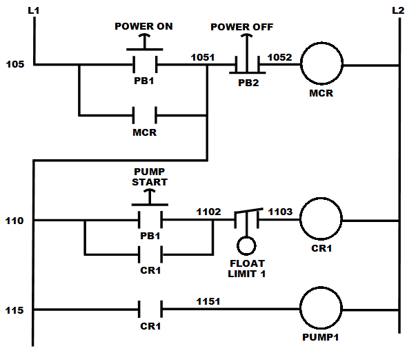 Image of a simple relay rack ladder diagram